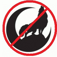 anti-pan-turkism